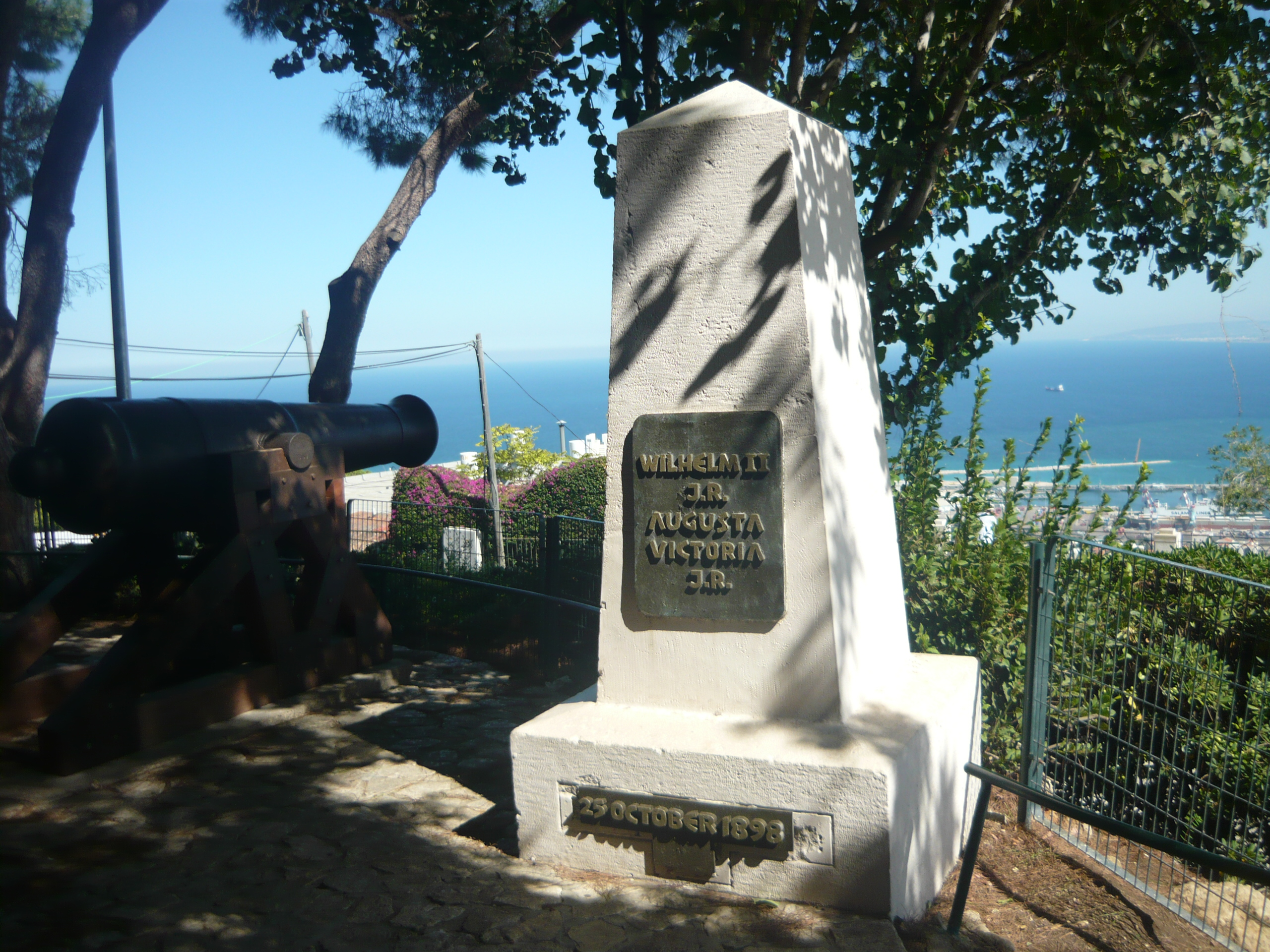 a small obelisk and old turkish cannon commemorating the visit of Kaiser Wilhem II and Augusta Viktoria in Jaifa in 1898 placed in Augusta Viktoria garden in the Carmel Center in Haifa אובליסק ותותח תורכי ישן שהוצבו על מנת לציין את ביקור הקייזר וילהלם השני ורעייתו אוגוסטה ויקטוריה בשנת 1898 בחיפה המוצבים בגן אוגוסטה ויקטוריה במרכז הכרמל בחיפה